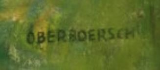 Signature of German painter Josef Oberboersch (1884—1957)